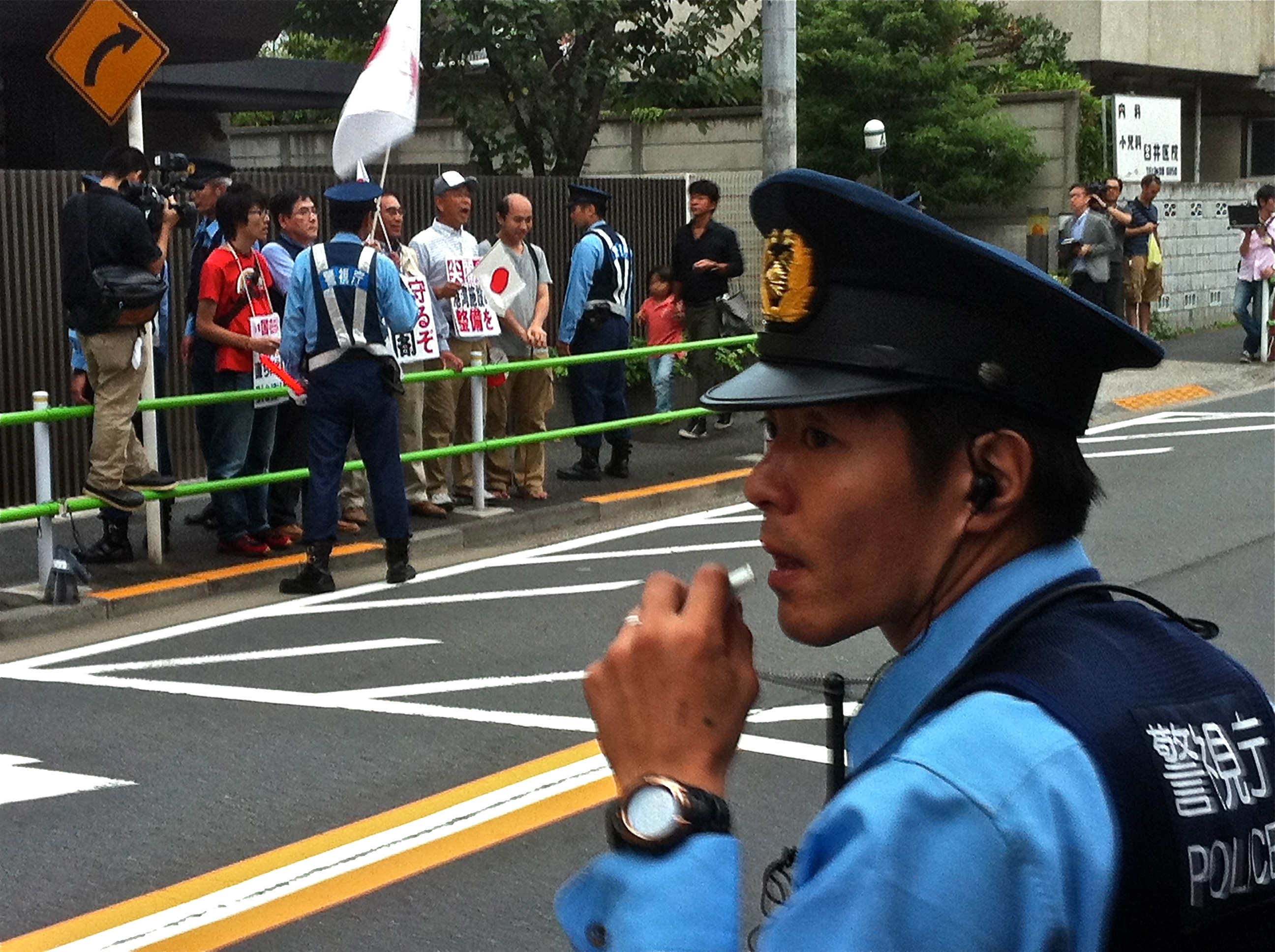 Police keep an eye on Anti-Chinese protests in Tokyo, Japan in front of the Chinese Embassy during the 2012 Senkaku Island dispute protests in East Asia.